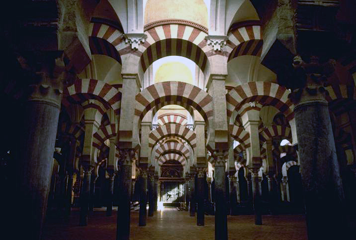 Mezquita, Córdoba, Spain. This mosque, known as "La Mezquita" -- Spanish for 'the mosque' -- is currently used as a cathedral. It features supporting columns made of talc (soapstone).